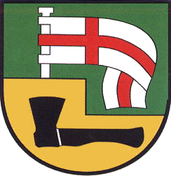 Coat of Arms of Dieterode